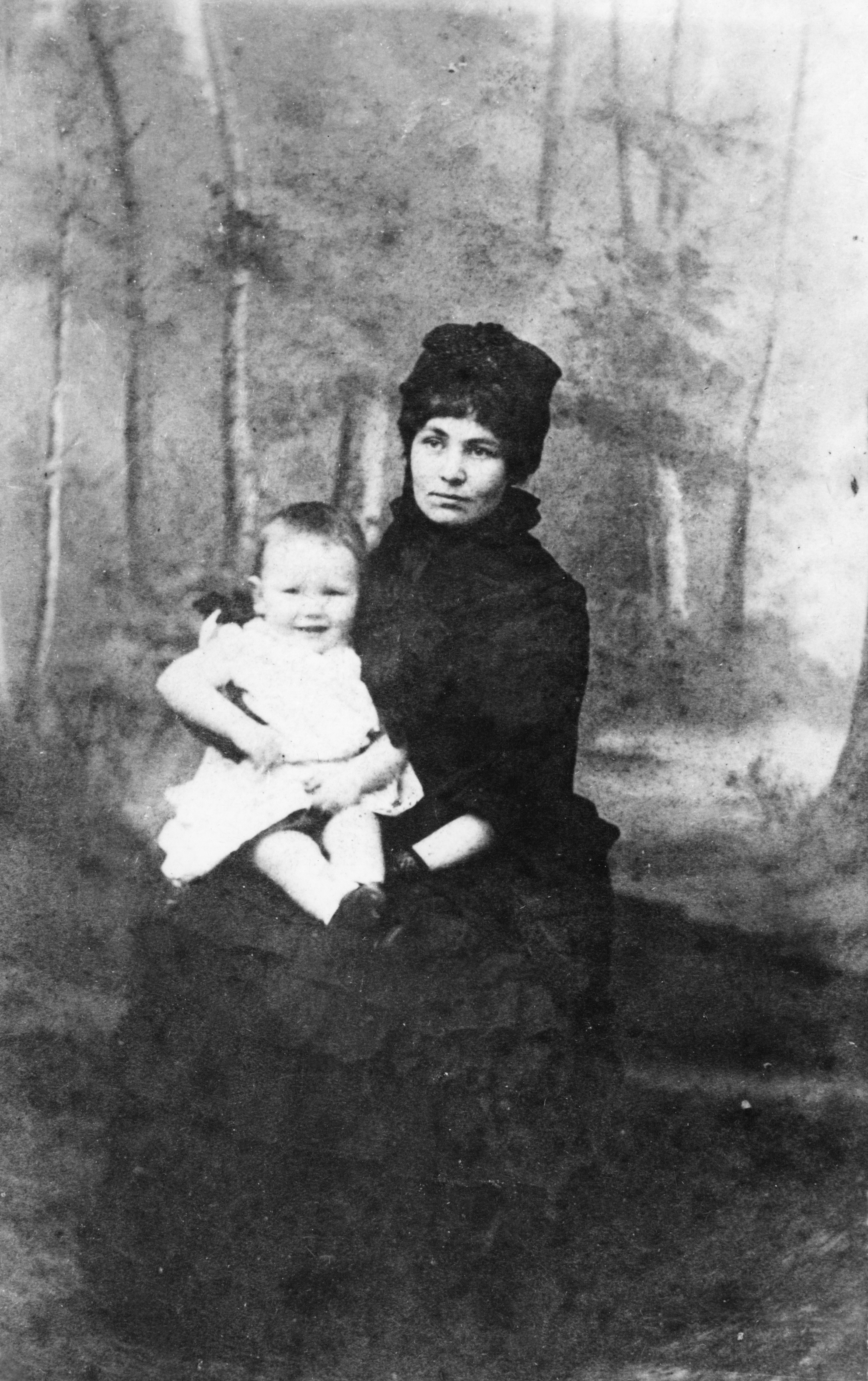 7JCC/O/02/089 Photograph, modern reproduction, printed, paper, monochrome, studio portrait of Emmeline Pankhurst holding an infant on her knee; printed below image 'Bowen, Photo. Lytham', manuscript inscription on reverse 'Mrs Pankhurst with Henry?'